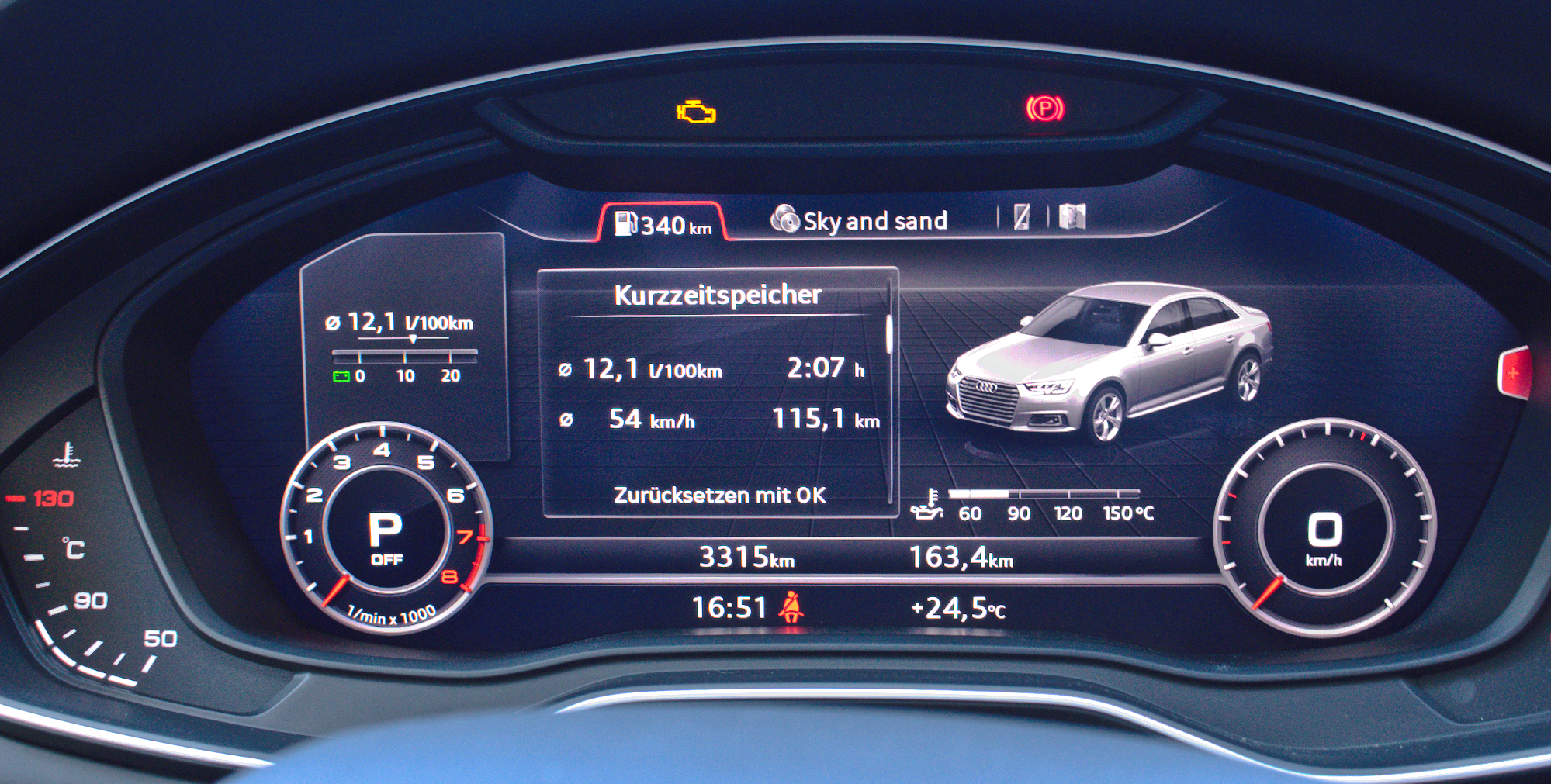 2015 Audi A4 B9 2.0 TFSI quattro 185 kW S line virtual cockpit